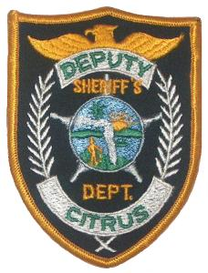 collection of SGT141 (talk) 05:03, 29 March 2008 (UTC)